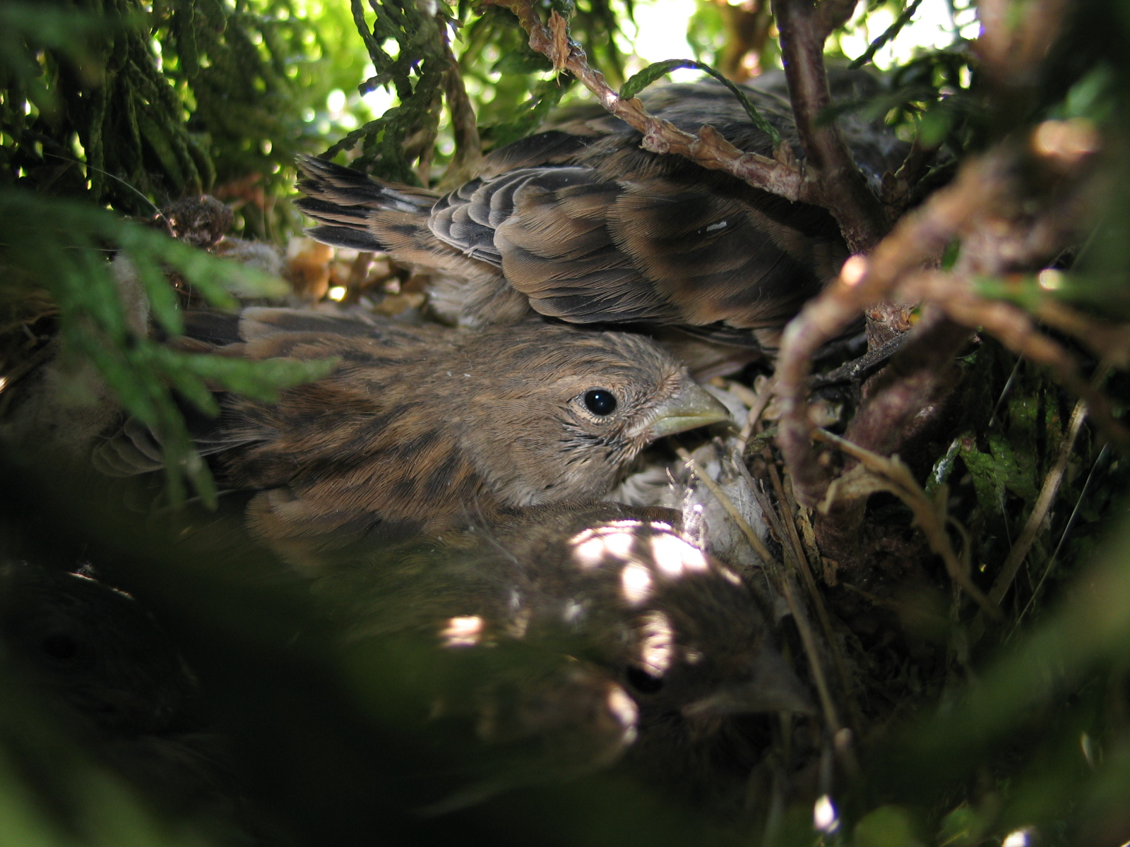 Young linnets (Carduelis cannabina) in nest. The nest was in a hedge near Cerknica elementary school (Slovenia).